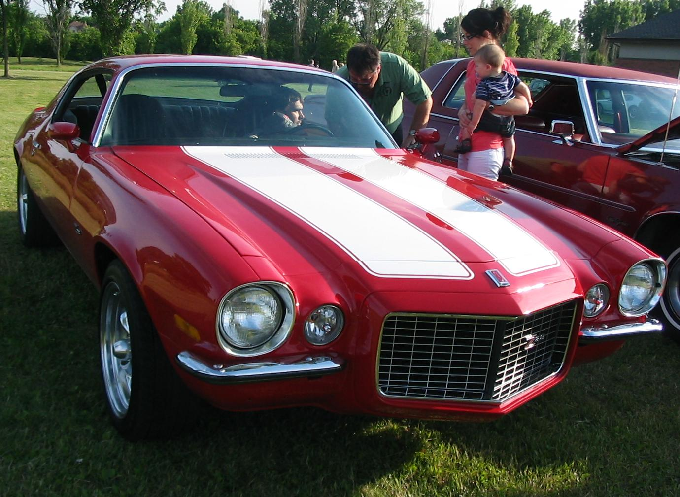 Chevrolet Camaro Z28 photographed in Mont St. Hilaire, Quebec, Canada at the Auto classique VAQ Mont St-Hilaire.